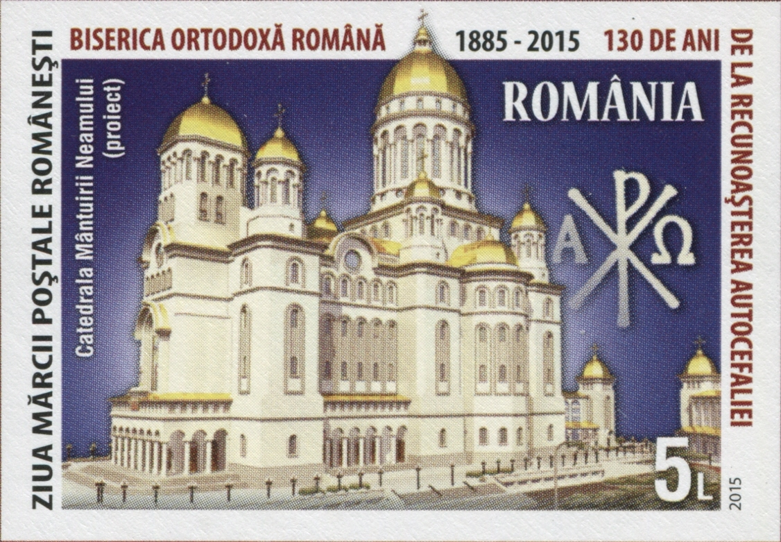 Stamps of Romania, 2015